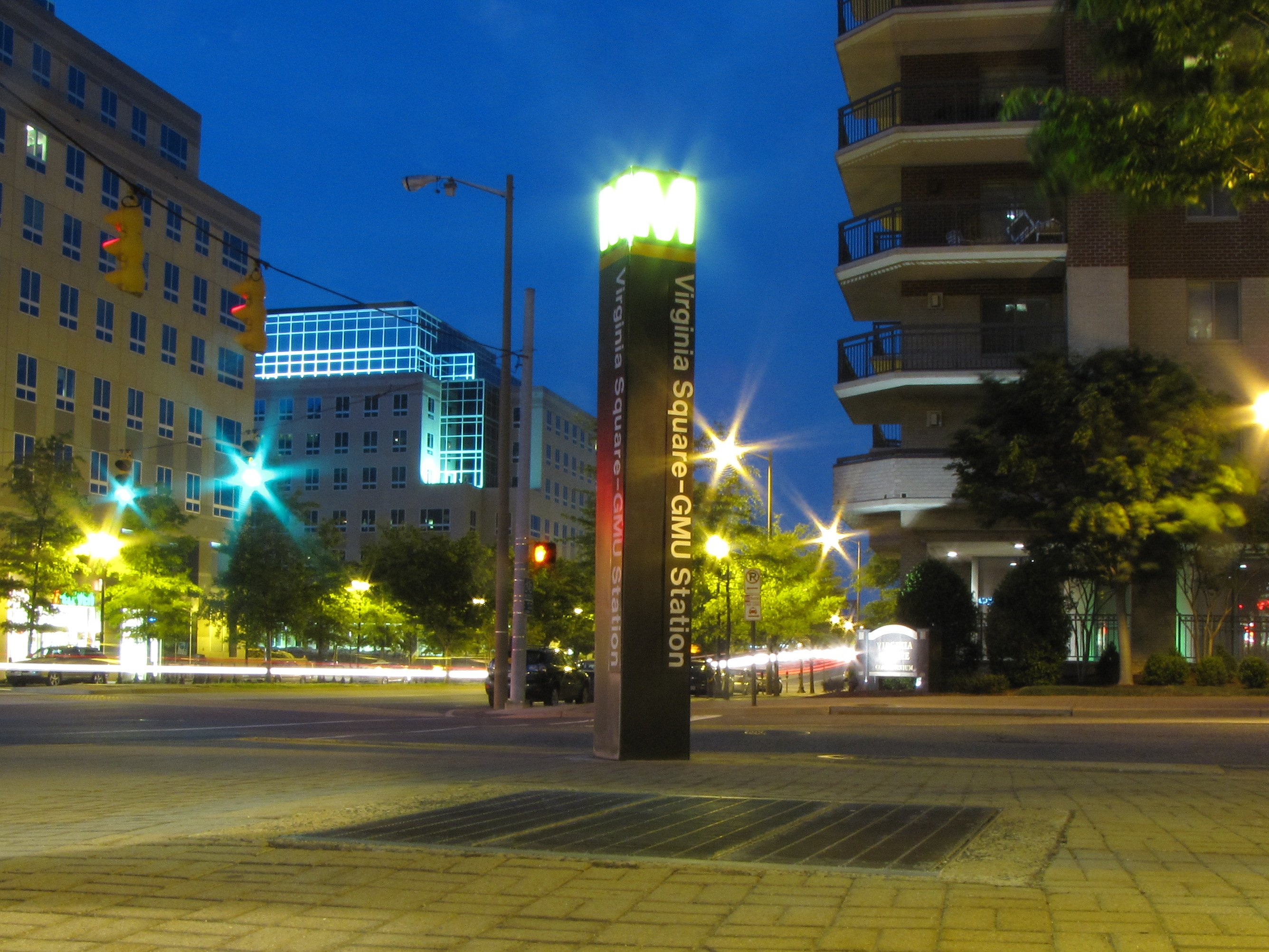 Virginia Sq-GMU station entrance pylon, on the Orange Line of the Washington Metro.